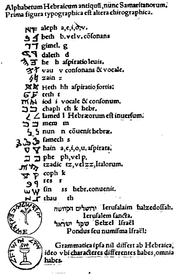 Samaritan letters and Jerusalem coin, Guillaume Postel 1538, Linguarum duodecim characteribus differentium alphabetum, introductio